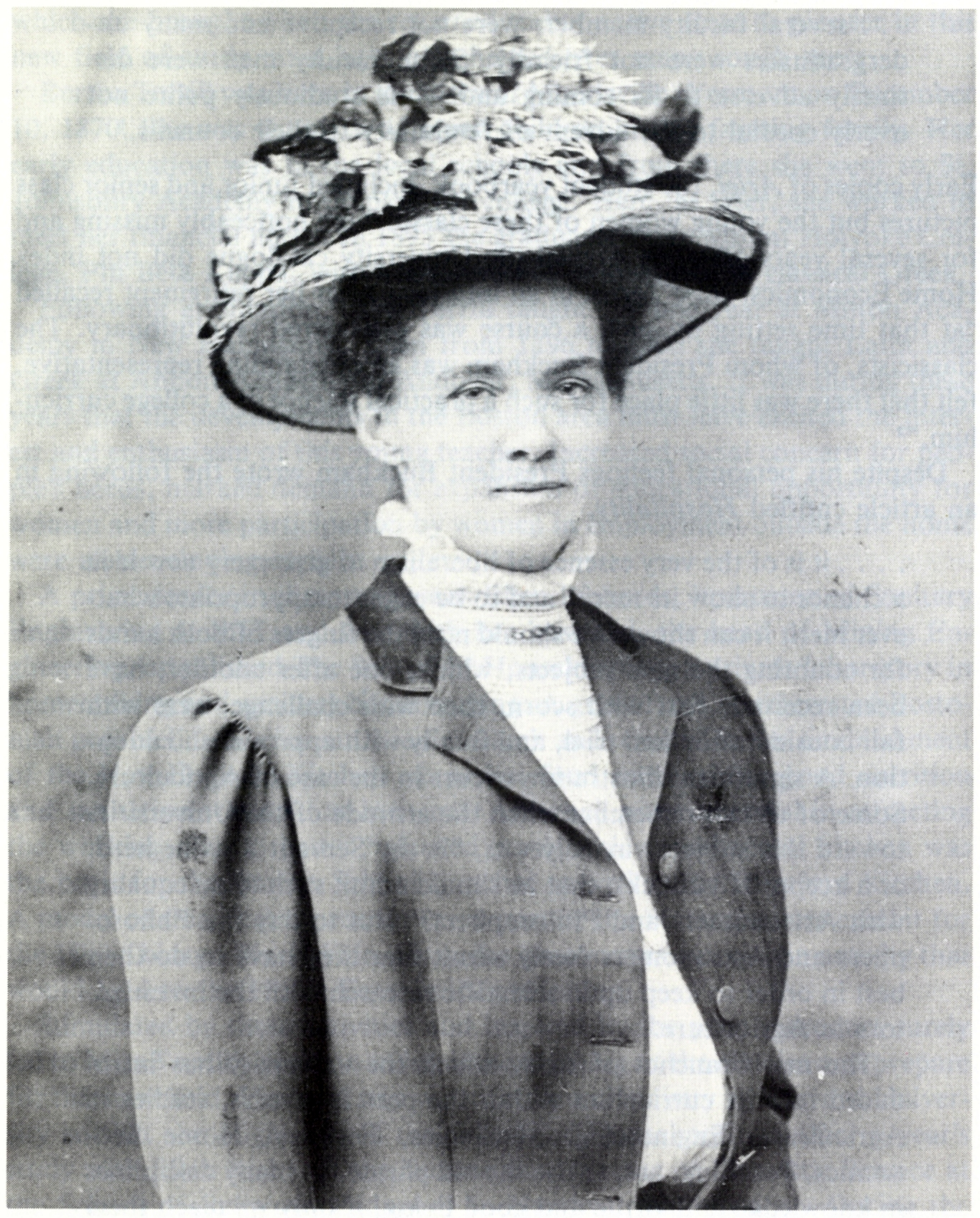 Professor Bertha Mary Terrill (1870-1968), the first woman faculty member of the University of Vermont, 1909